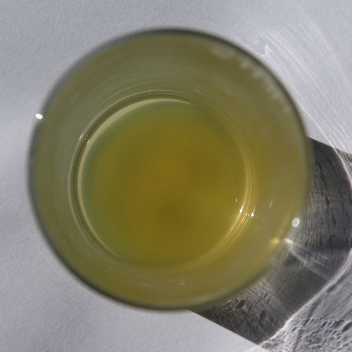 A small piece of terbium dissolved in 25% acetic acid. The reaction product contains the colorless terbium(III) ion and the red-brown terbium(IV) ion, probably as terbium acetate.